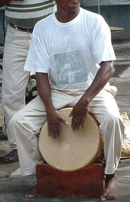 Maloya player using a traditional rouler (a wooden drum with goatskin). Maloya is a form of folk music and dance from la Réunion. It is similar to the early blues insofar as singers speak about their troubles and everyday cares. It was banned until the sixties.